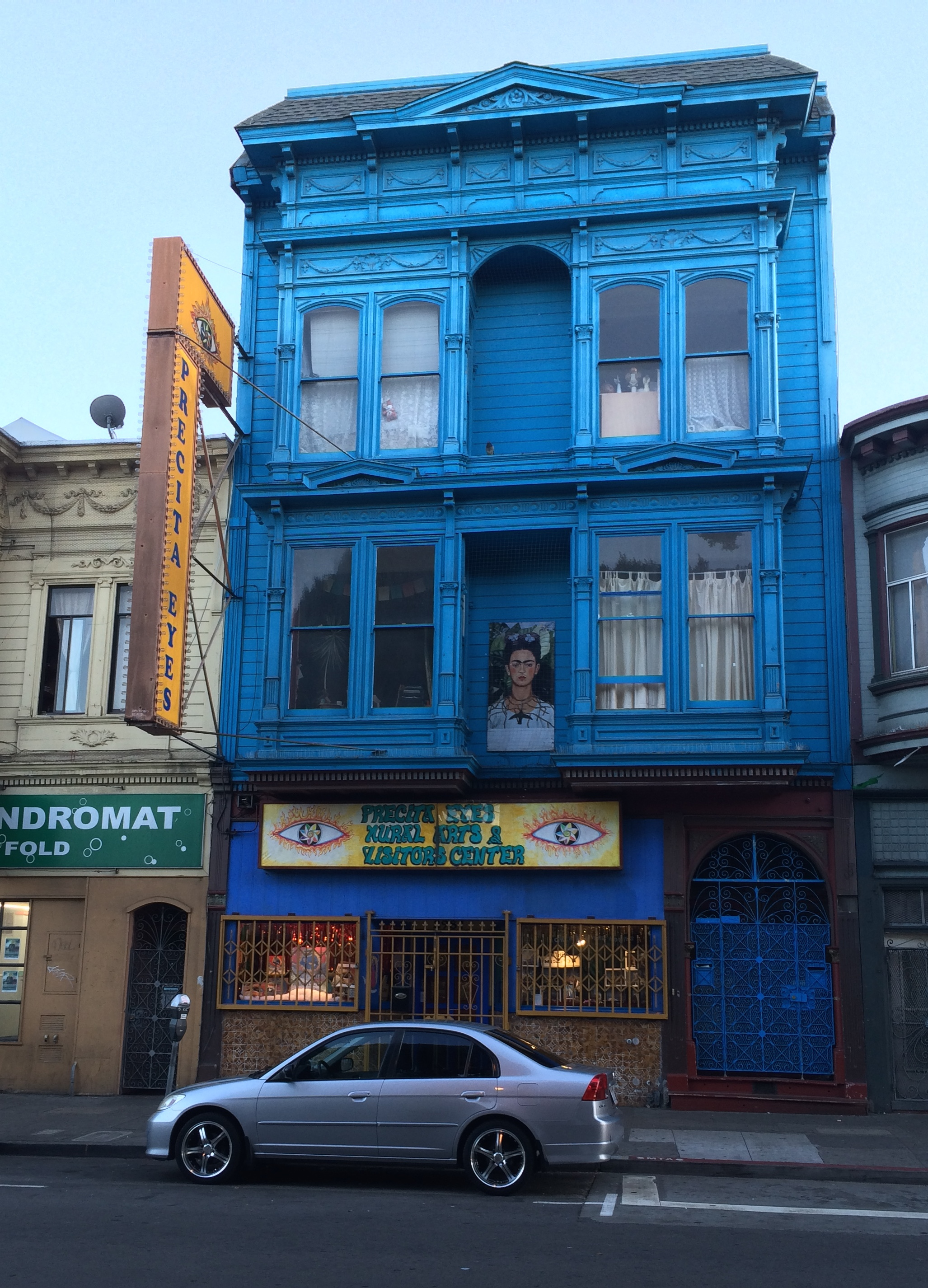 Precita Eyes Muralists Association on 24th Street in the Mission District, San Francisco.